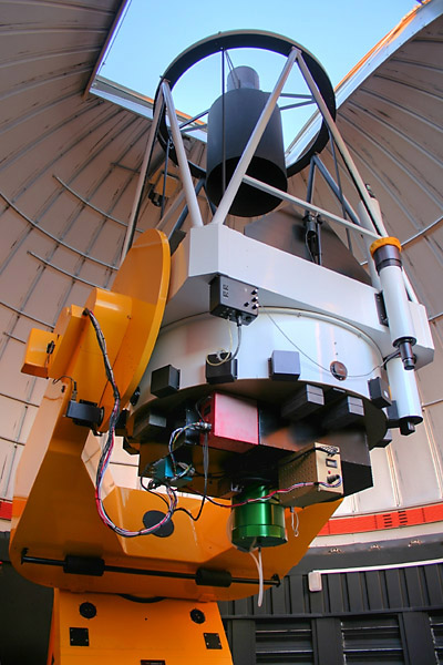 The polish 1.3m telescope in Las Campanas Observatory in Chile.